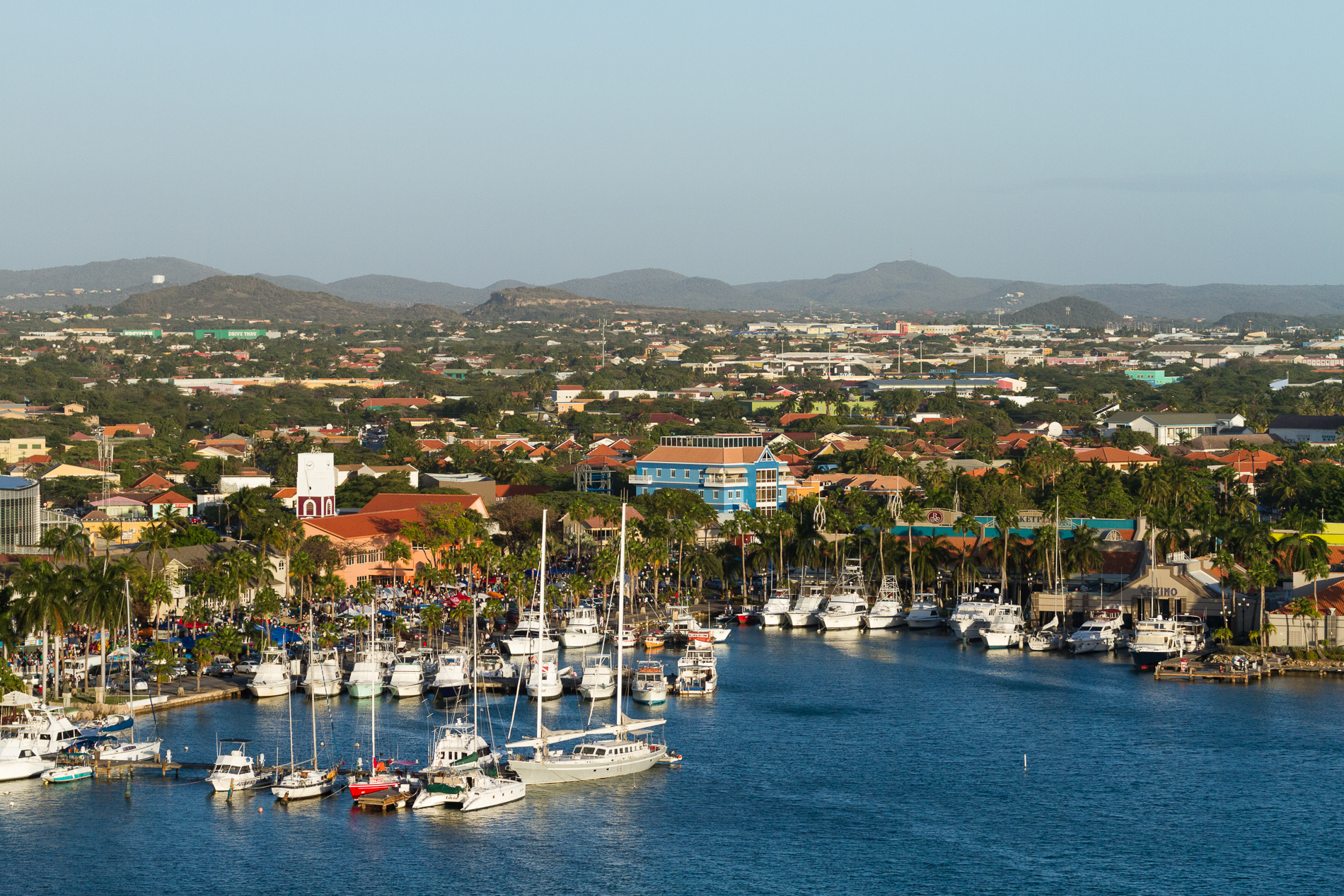 Aruba inlet full of sailboats